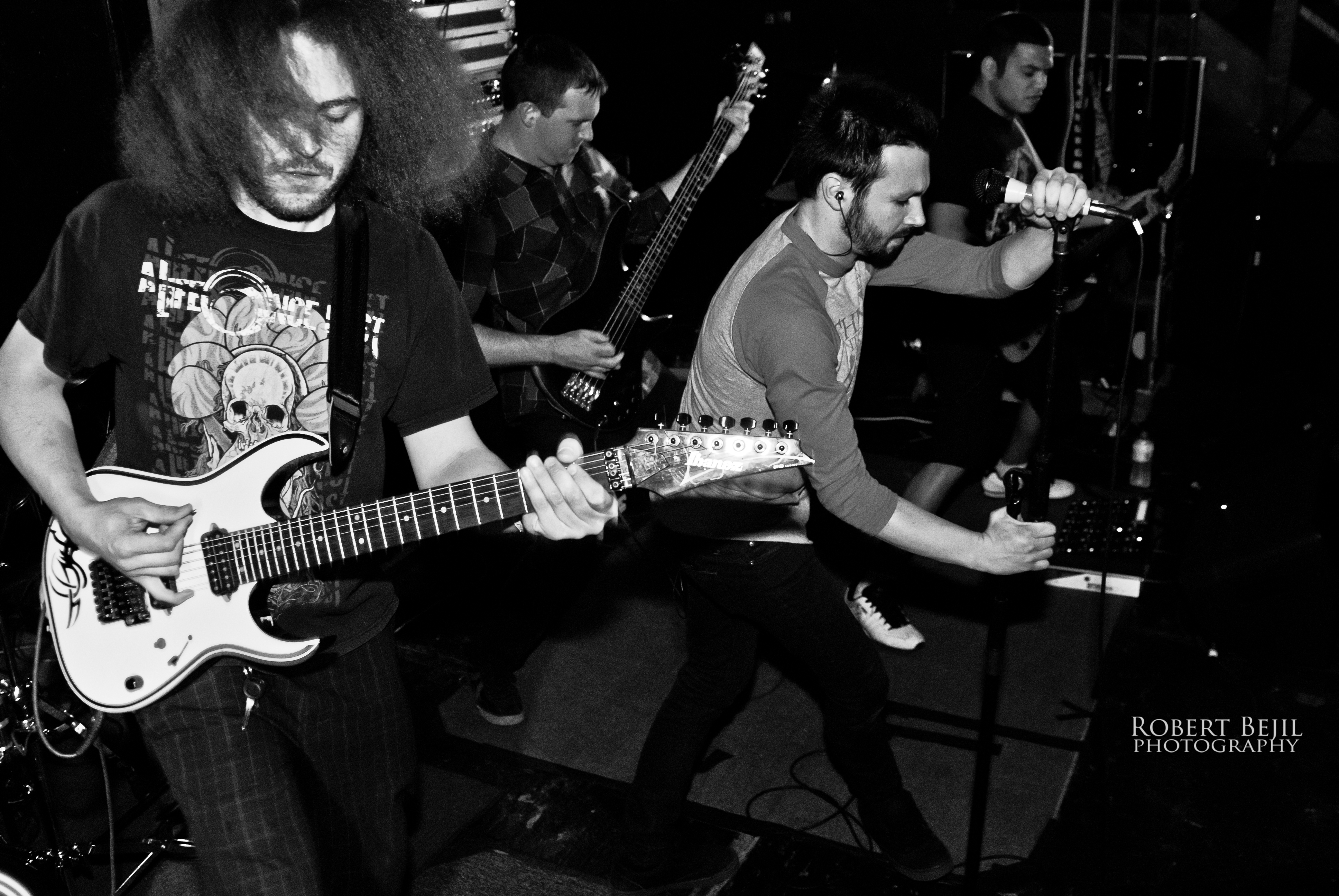 Periphery Live at Jerry's Pizza. Bakersfield California 03/12/11